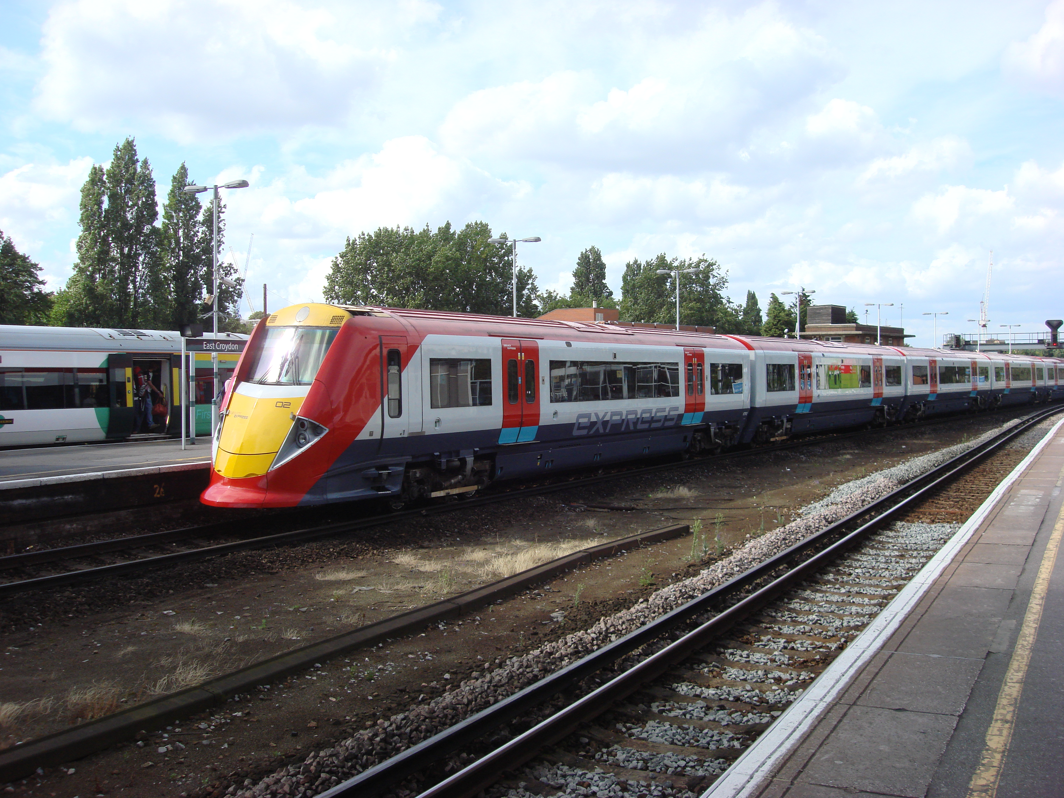 460002 rushes through East Croydon, with a service bound for Gatwick Airport. All Class 460 units were in store by the end of May 2011, but in October that year, this unit, along with unit 46001 were reinstated and are back in service with Gatwick Express, although this unit has had all Gatwick Express branding removed.